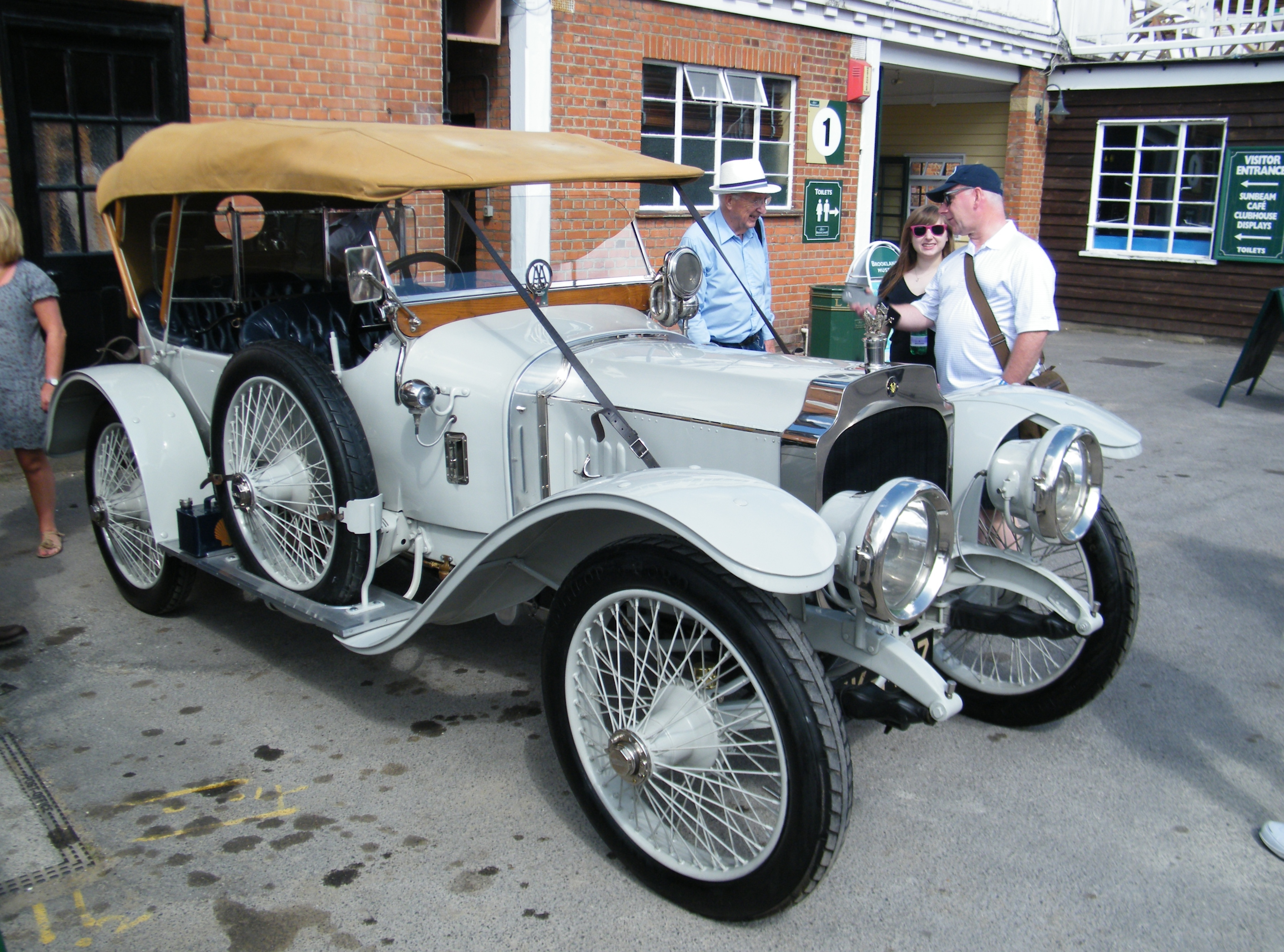 1912 Vauxhall Type A Tourer radiator badge Great War 100 Brooklands Weybridge 3 August 2014